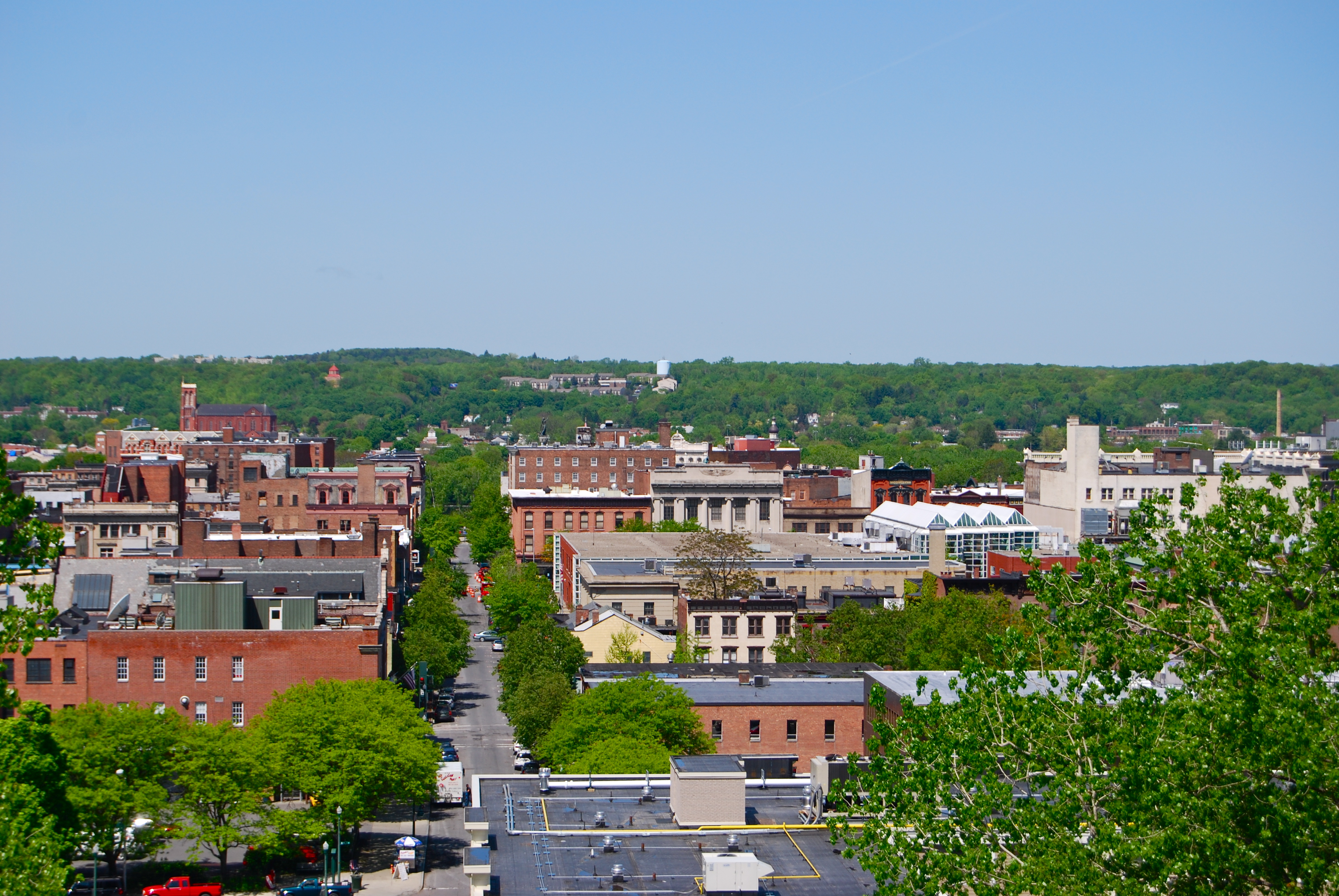 Skyline of the Central Troy Historic District in Troy, New York, United States